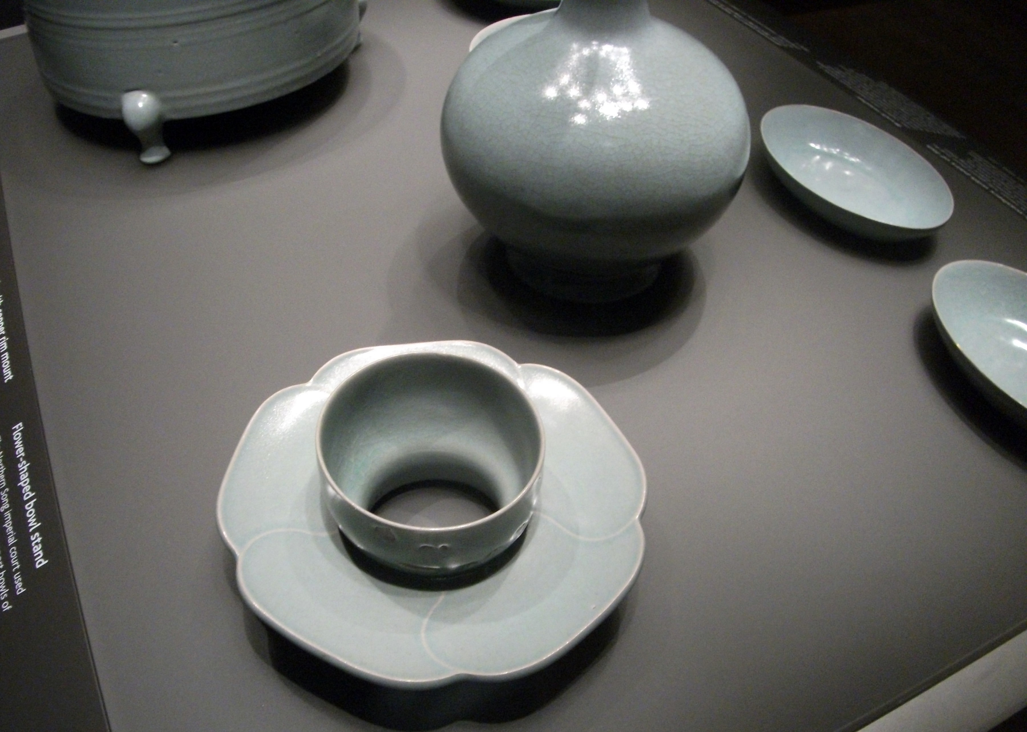 Ru ware, Percival David Collection, British Museum